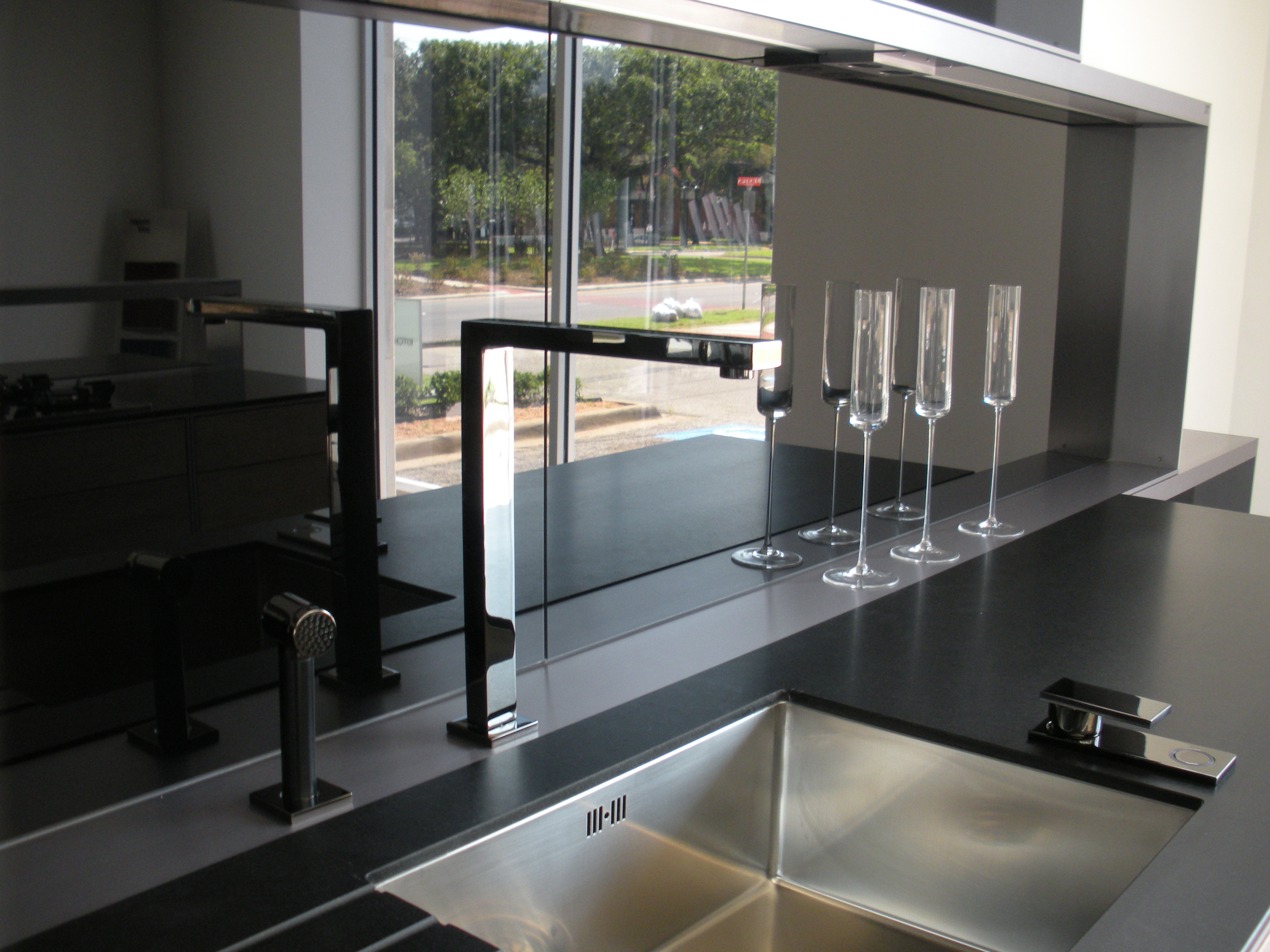 Poggenpohl sink